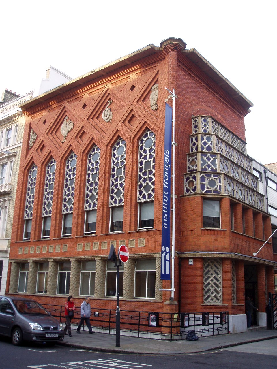 The cinema attached to the Institut Français in London. Plays a good range of French and arthouse films. It was built in 1939, but not fitted out as a cinema until 1996. Address: 17 Queensberry Place. Owner: Institut Français (website). Links: Randomness Guide to London Cinema Treasures